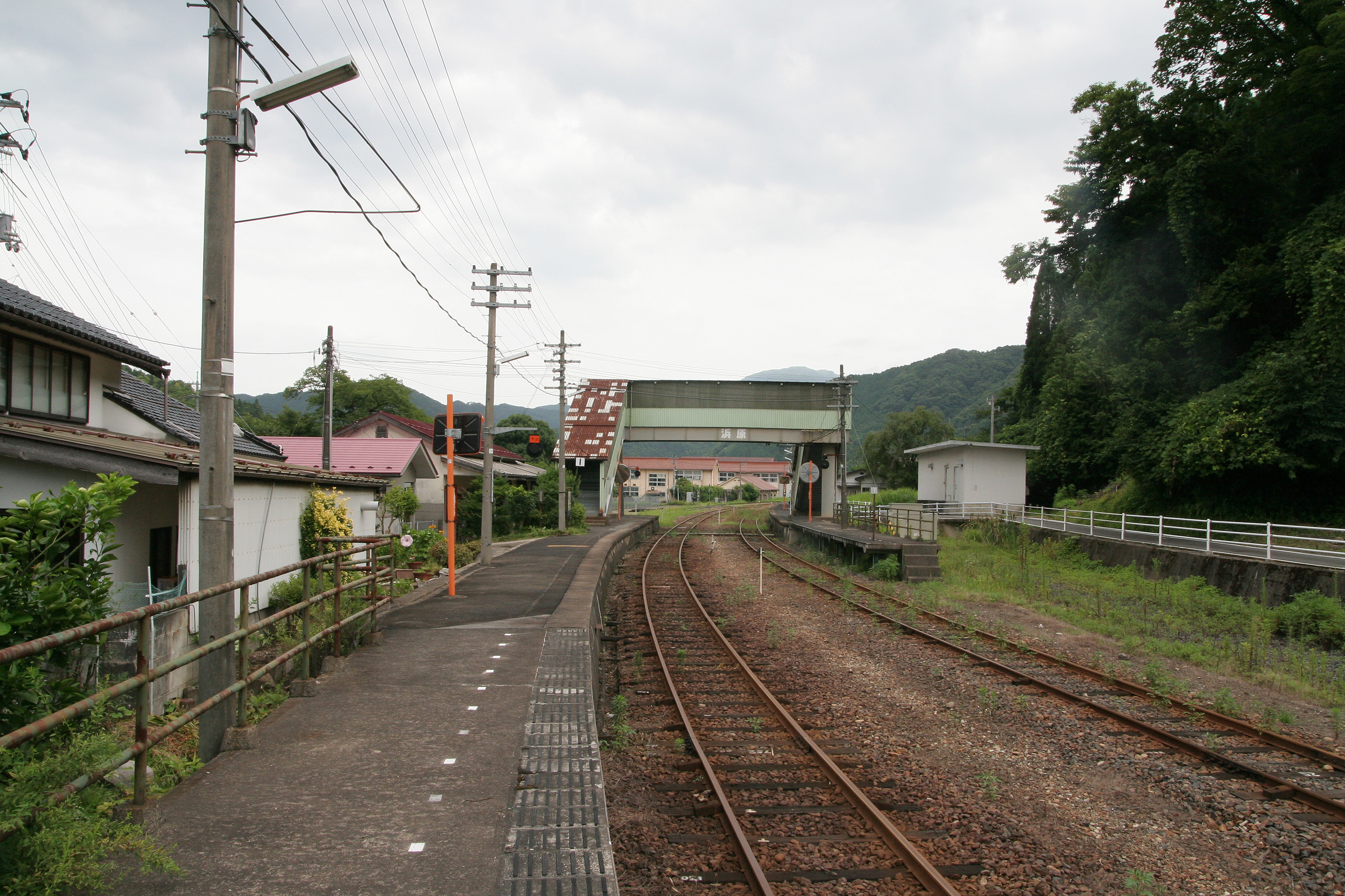 West Japan Railway Sankō Line Hamahara Station enclosure